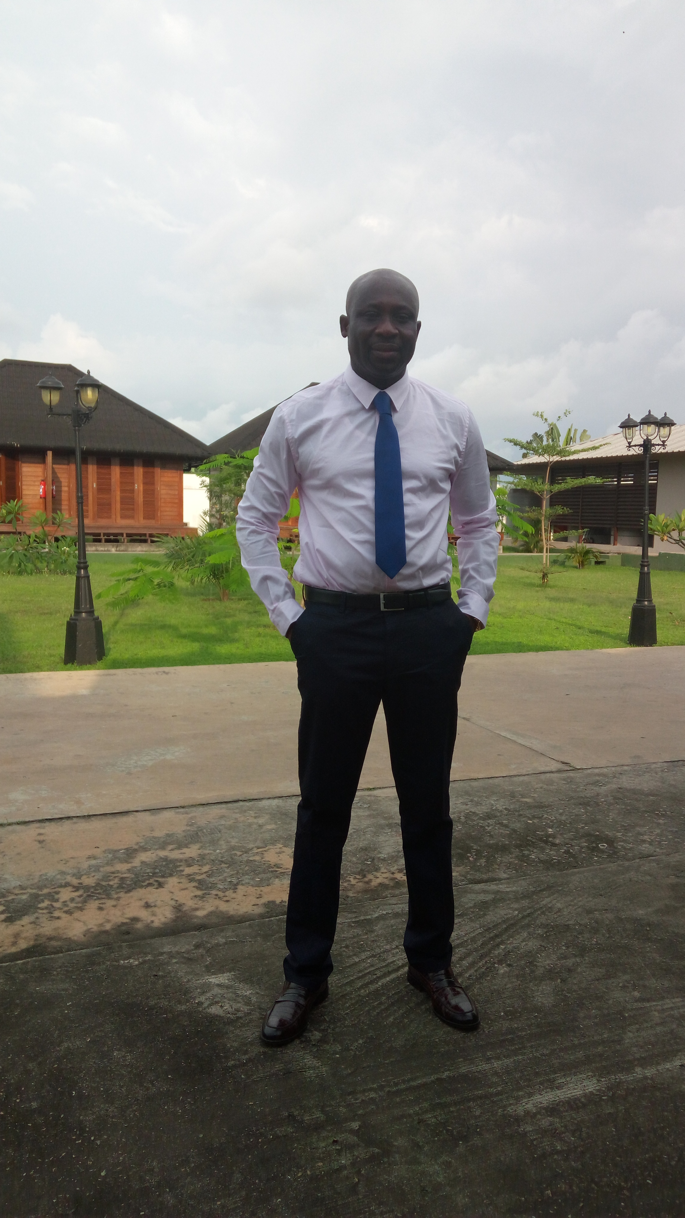 George Afriyie Ghana Football Association Vice President and Okyeman Planners FC President